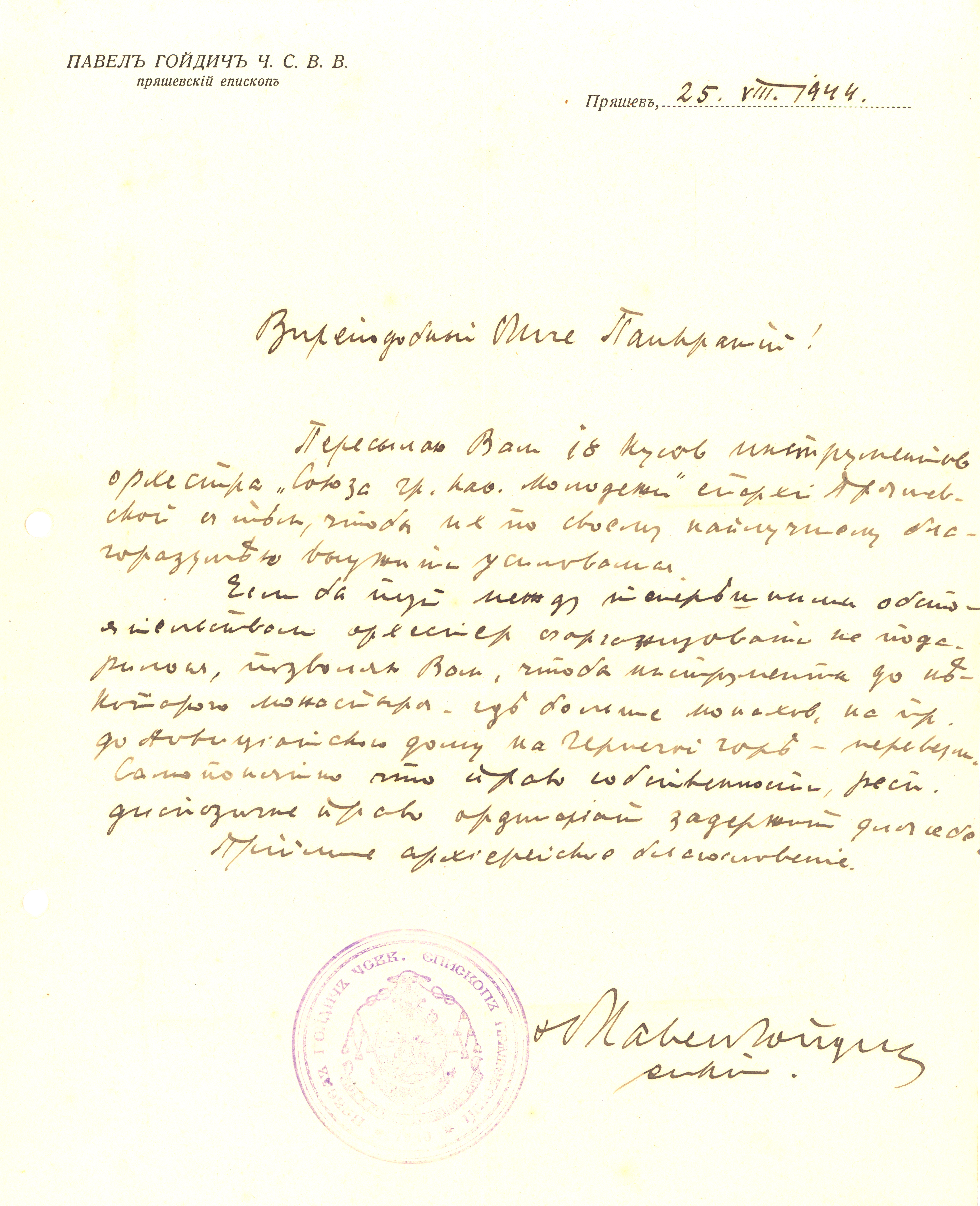 Letter of bishop Pavol Peter Gojdič, OSBM, from 1944 written in Ruthenian language. By the testimony of Rev. Pankratij Pavol Hučko, OSBM, to Rev. Jozafát Vladimír Timkovič, OSBM, in correspondence with bishop Gojdič during WWII, they called Jews as instruments for orchestra. When Gojdič sent Jews to Hučko for saving them from concentration camp, they brought with them letter from Gojdič... It was precaution, that nazis will not come to Hučko pretending to be Jews... So one of 18 saved Jews mentioned in this letter, brought this letter from Gojdič to Hučko. Document scanned by Jozafát Vladimír Timkovič, OSBM